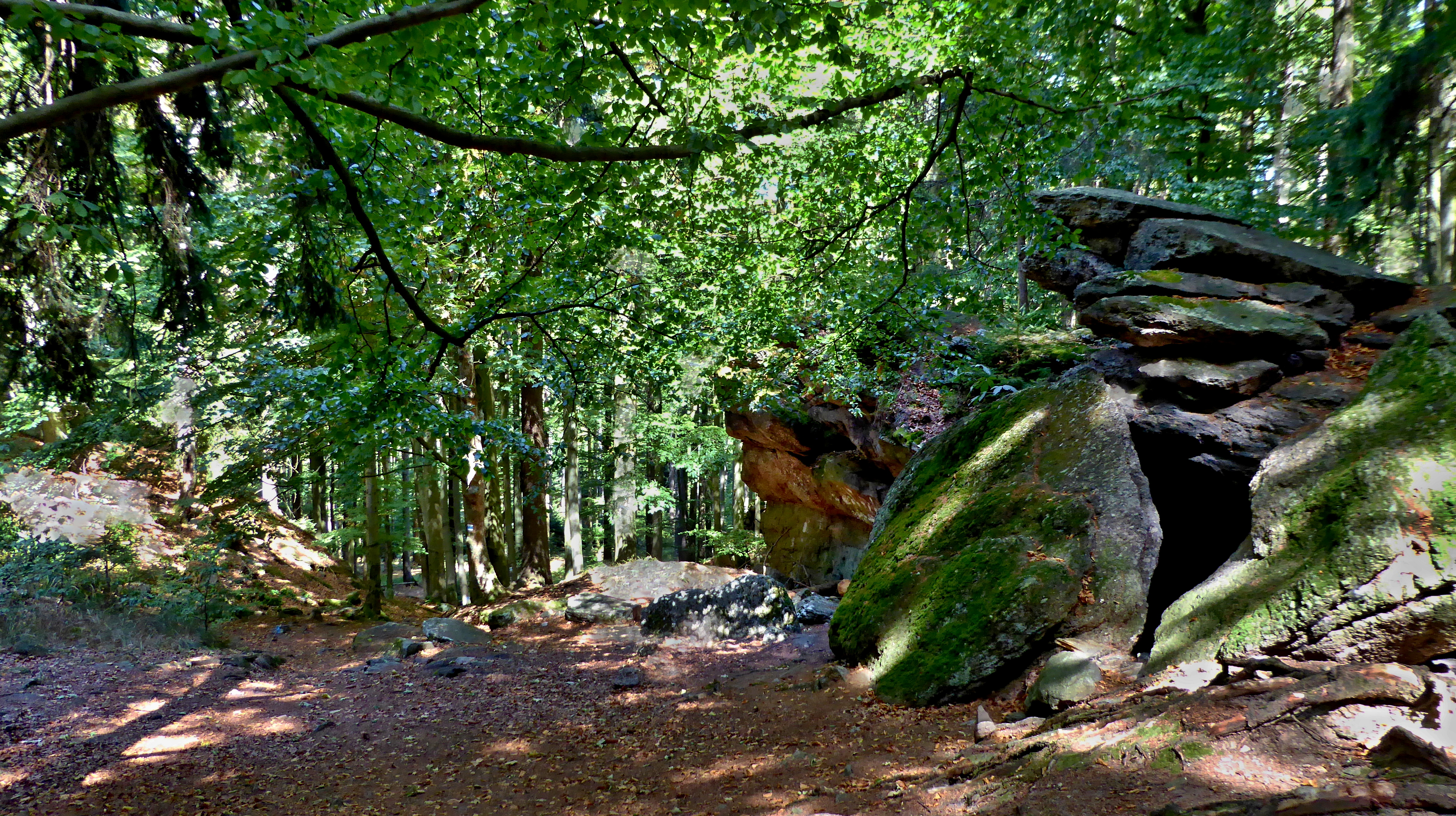 Space between rocks – historical human settlement, a view from a terrain causeway on a rock system. On the right is a rock block with name "Hradiště" (height about 5 m) in a group of rocks with the geographical name Petrified Chateau in the geomorphological district "Borovský" Forest. Petrified Chateau is important geological locality, cultural and natural monument of the Czech Republic (archeological traces of Slavic settlement). It is located in the cadastral area of town Svratka and is part of the Žďár Hills Protected Landscape Area. A blue touristic route of the Czech Tourists Club leads to the group of rocks (in the section: hunting chateau "Karlštejn" – Petrified Chateau – "Milovské Perničky").Photo-location: Czechia, Vysočina Region, the town of Svratka, a group of rocks called Petrified Chateau (azimuth 315°).